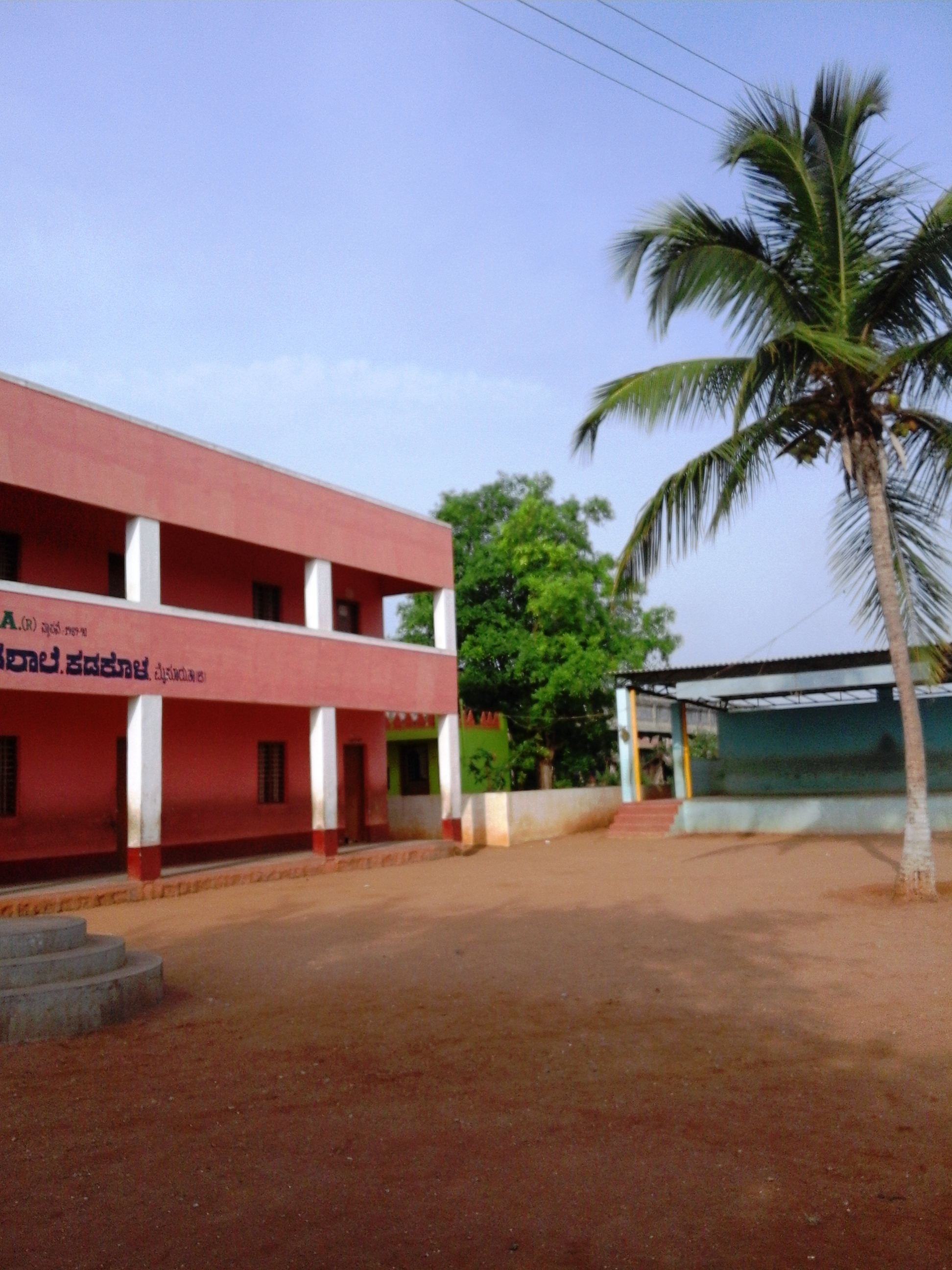 Kadakola village, Mysore district, Karnataka state, India.